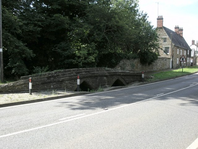 Medieval stone bridge over the River Cherwell in the High Street, Charwelton, Northamptonsire. It was built, probably in the 15th century, as a packhorse bridge. It now serves as a footbridge.